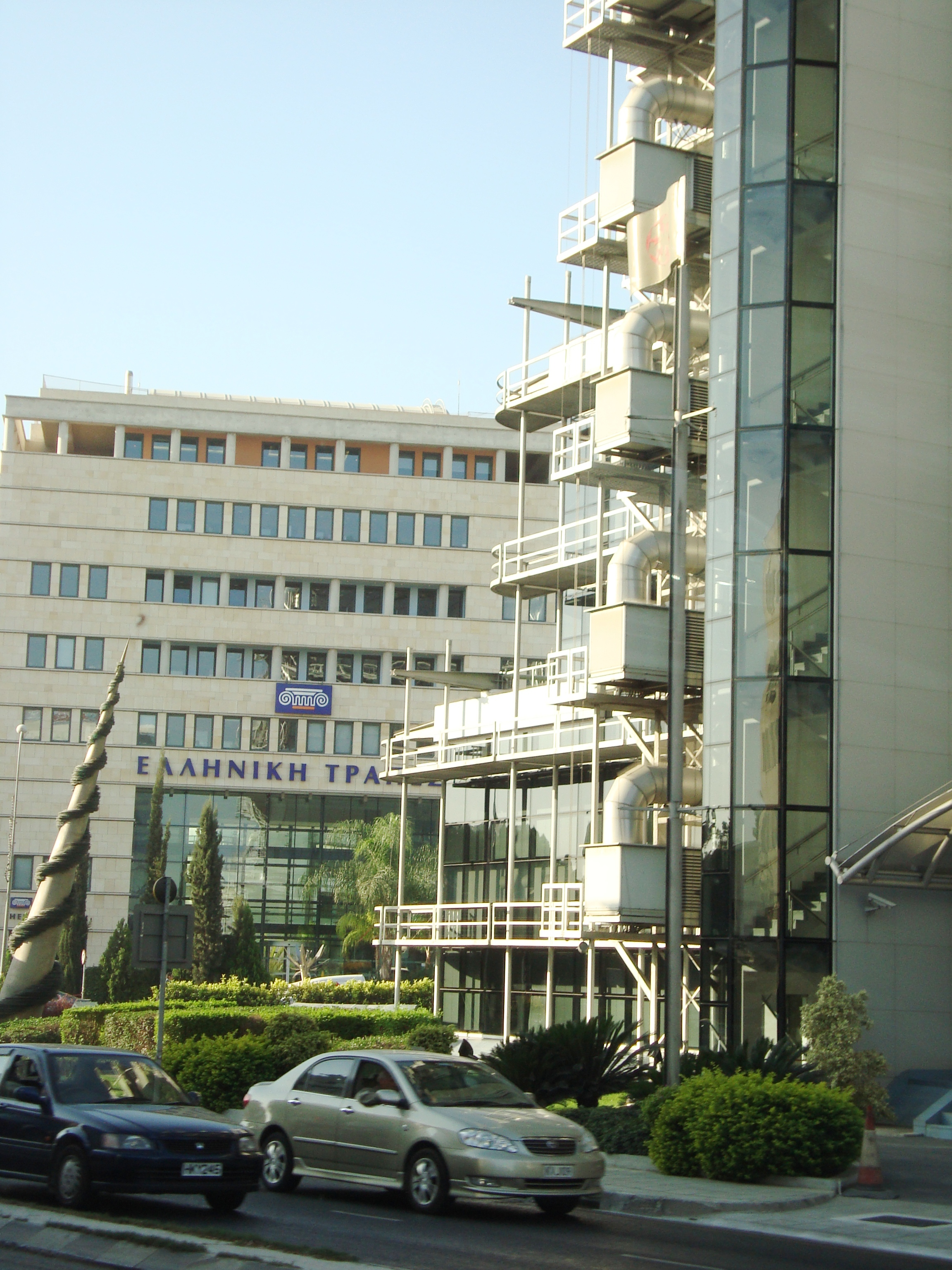 Nicosia is the financial and business heart of Cyprus. At the picture skyliens in Nicosia city entrance from the highway.